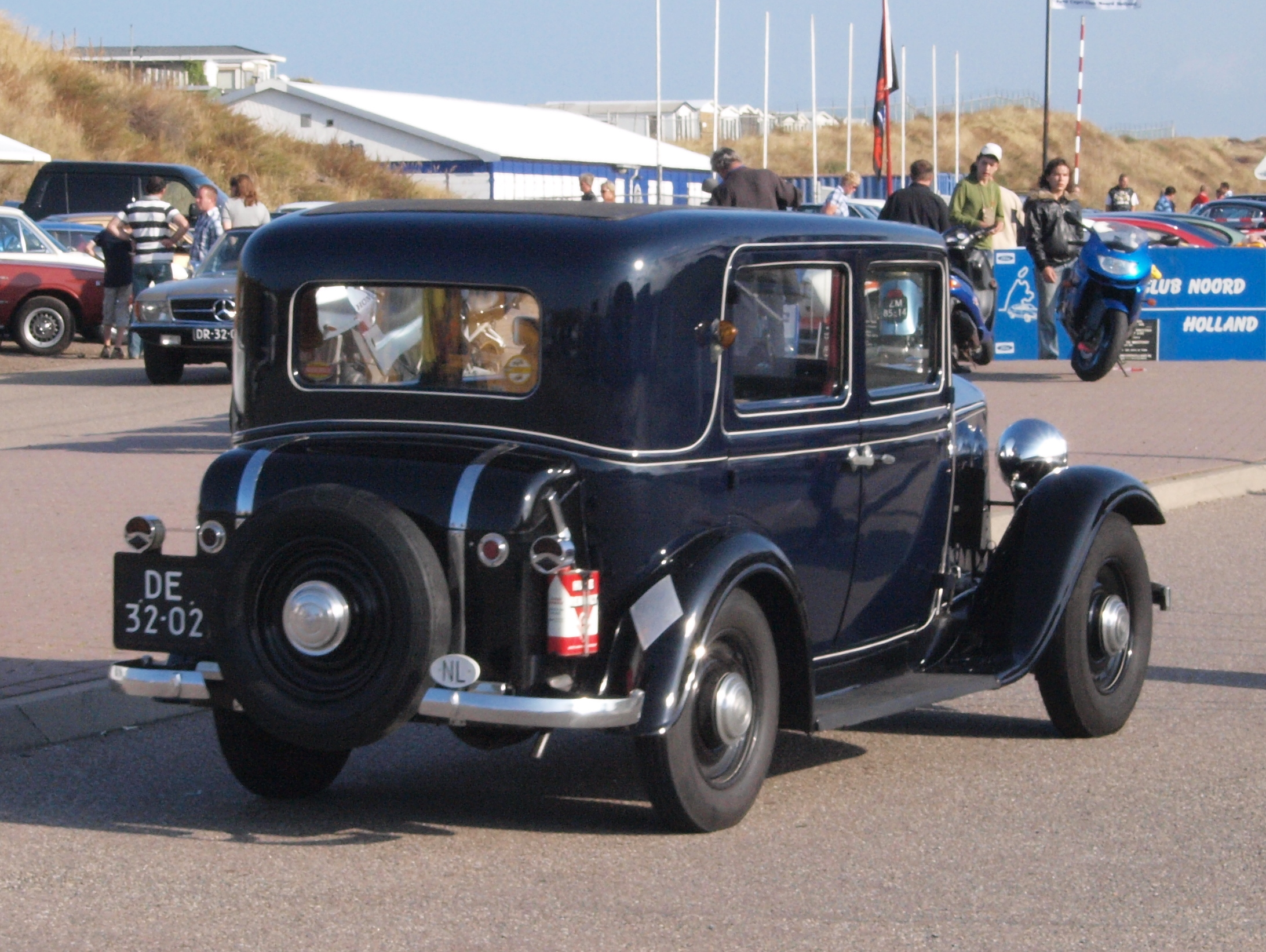 Photographed at the Nationaal Oldtimer Festival Zandvoort 2009, The Netherlands. OLYMPUS DIGITAL CAMERA